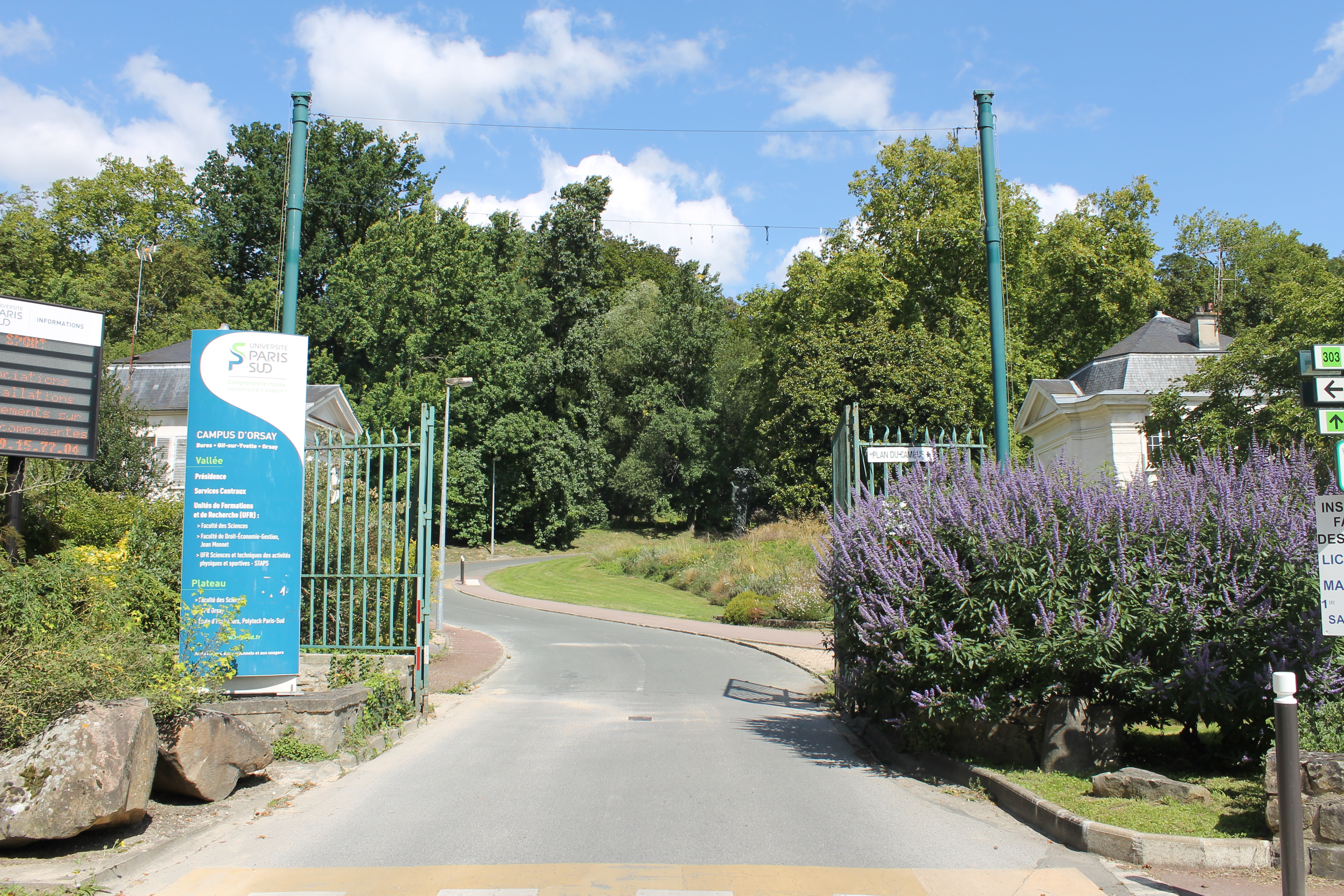 The entrance of the Orsay campus, in the scientific cluster of Paris-Saclay, France.